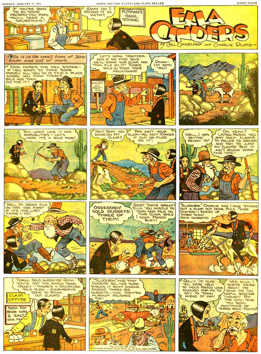 Ella Cinders comic strip A search for renewal was done in contributions to publications and in artwork for the years 1958 and 1959. There were no listings for the name "Ella Cinders"; there's no evidence this is still under copyright.